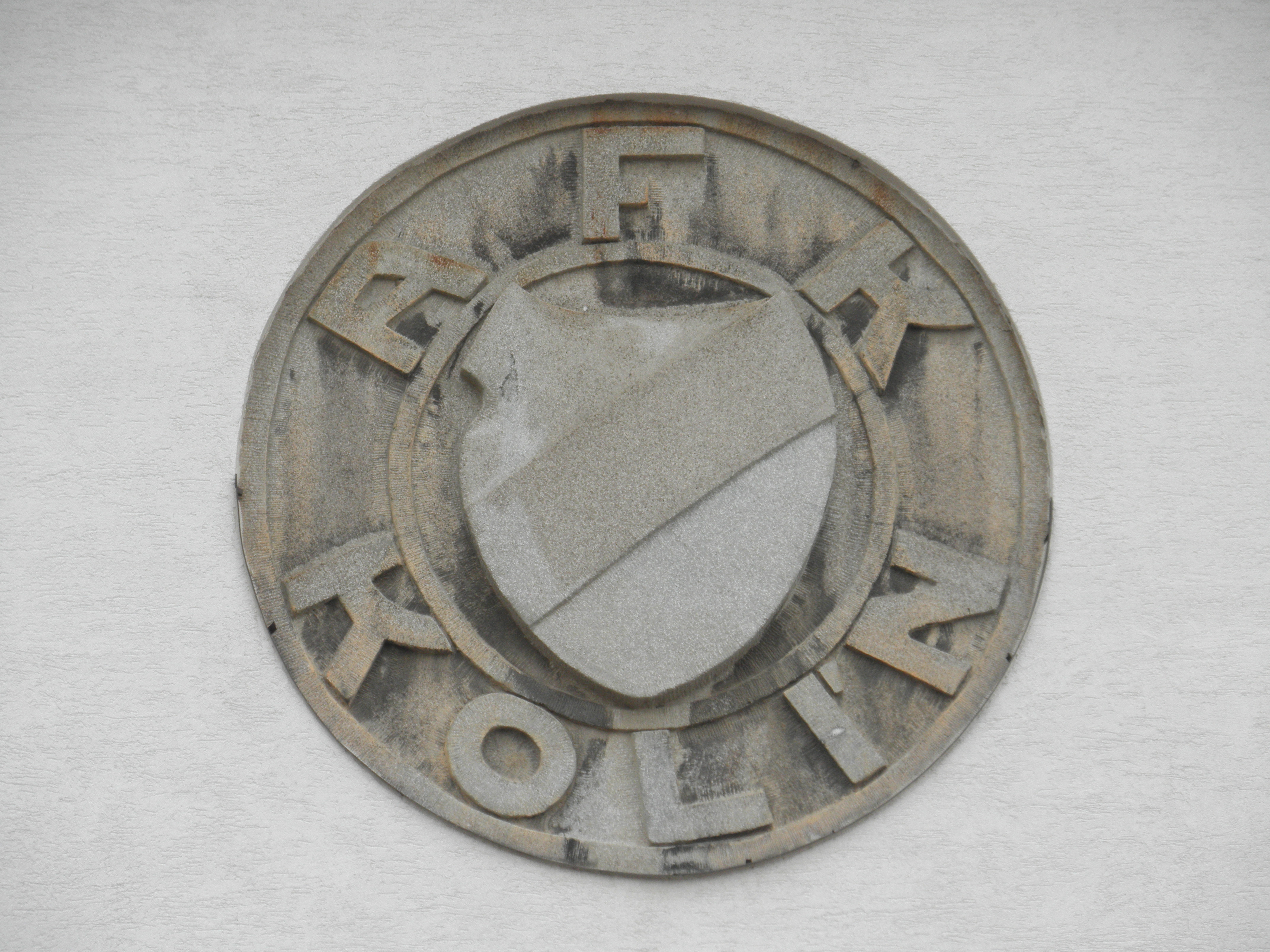 Relief of the logo of AFK Kolín fotball club at the house of the club at 1010 Křičkova street in Kolín.